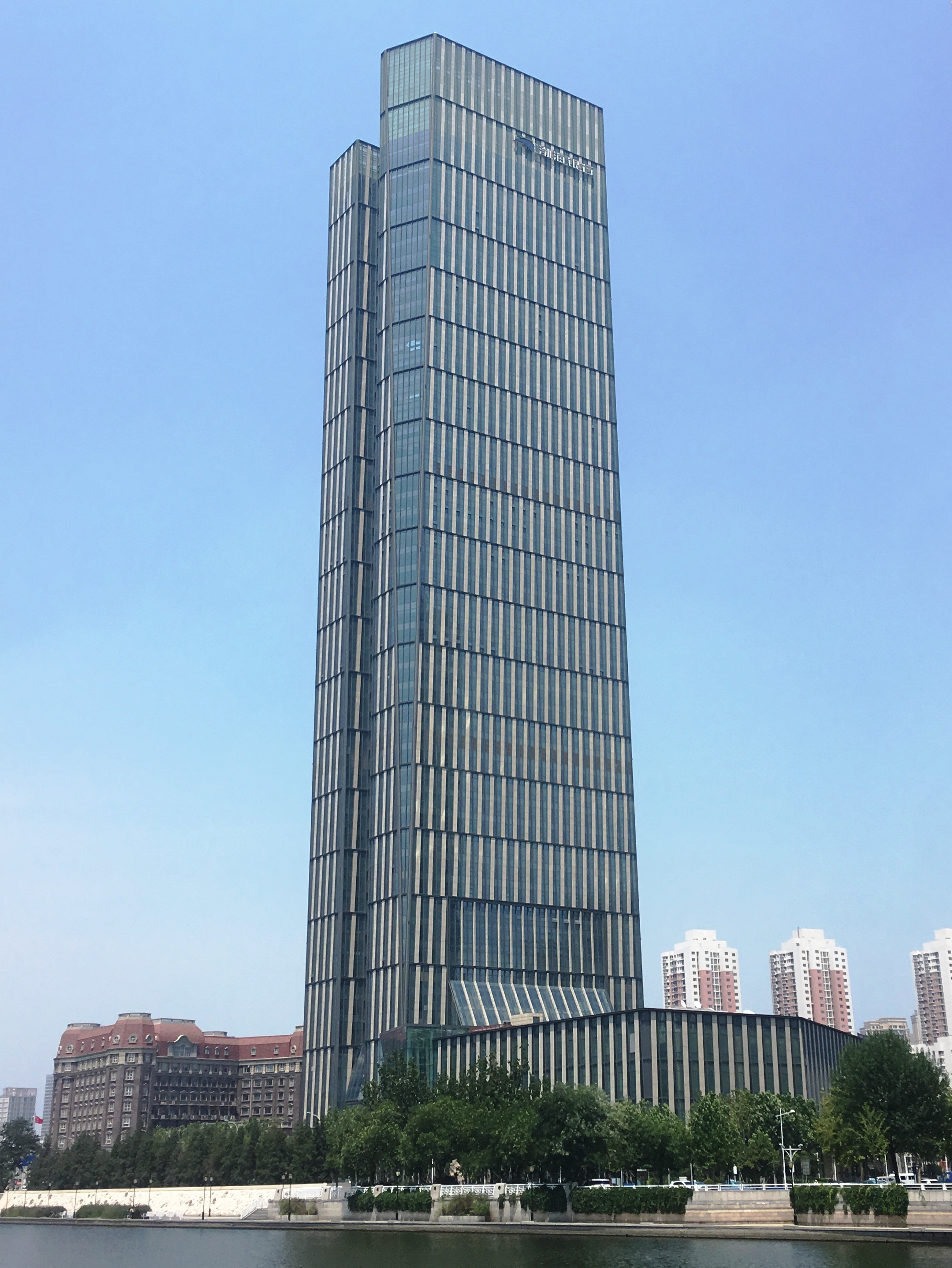 Headquarters of China Bohai Bank, a Commercial bank registered in Tianjin, China. Located in the former Russian concession, by the Hai River.